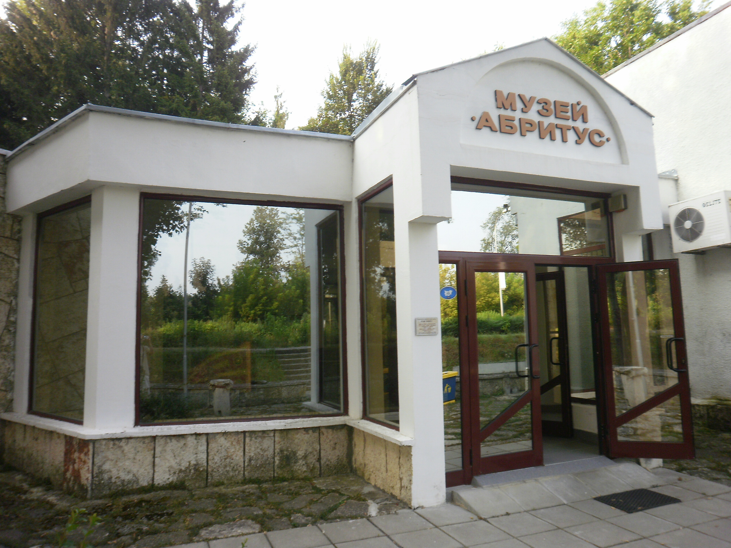 Museum Abritus, Razgrad, Bulgaria.